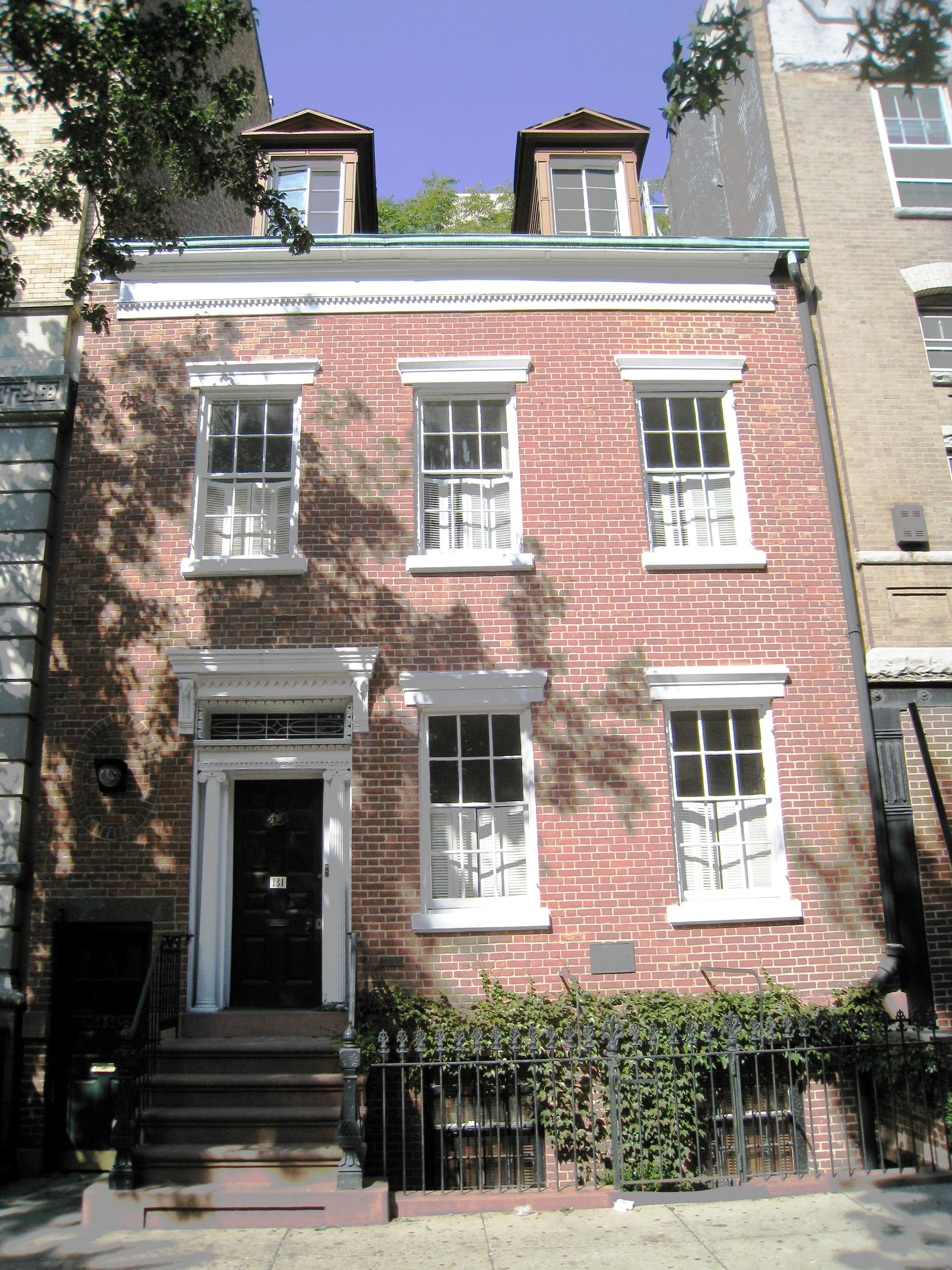 131 Charles Street, West Village, Manhattan, New York City This photo is of Wikis Take Manhattan goal code F6, 131 Charles Street.